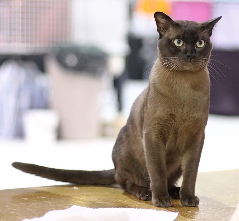 IC Arkhitekton Andel Alois (Sinni) [BUR n] male EX1 CAGCIB catshow.fi